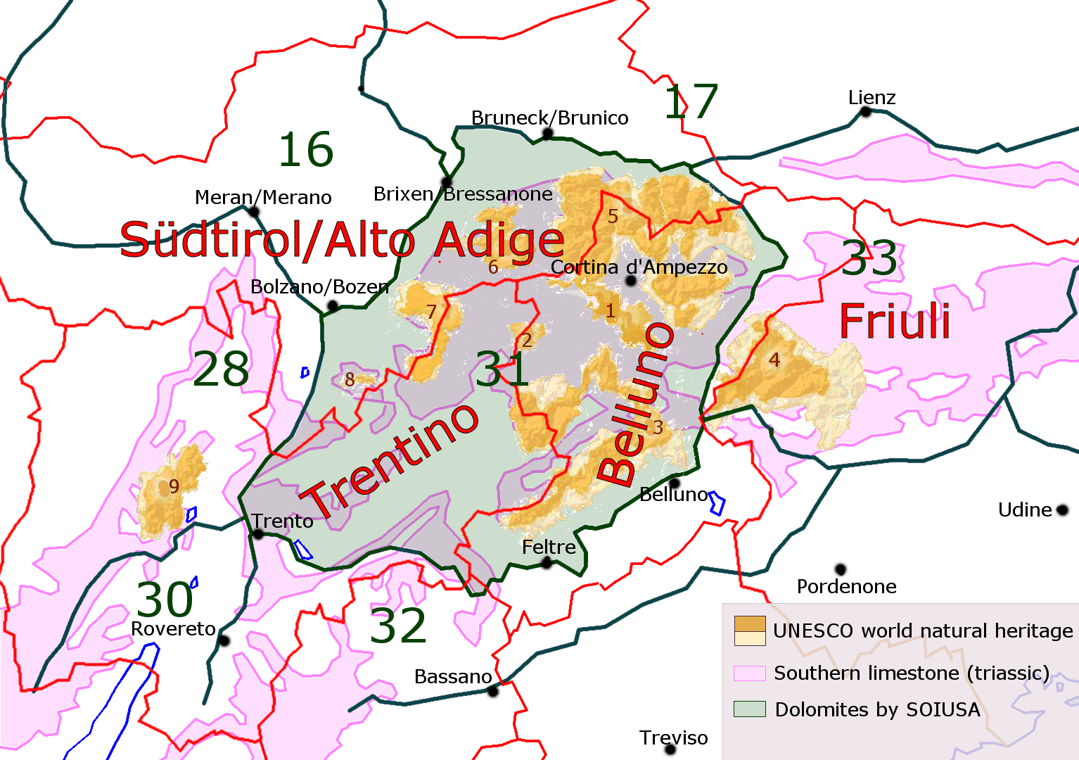 Dolomites area - overlay of different definitions